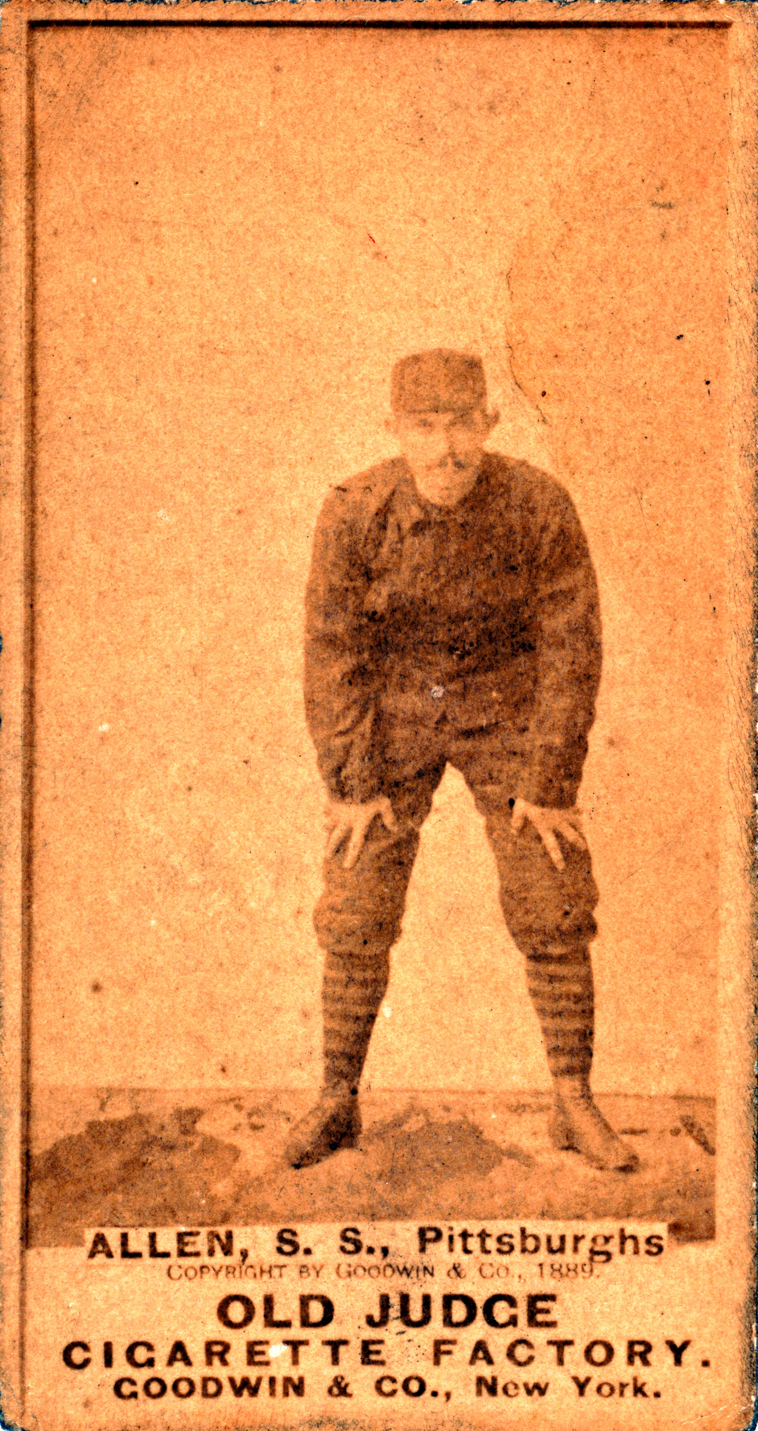 Baseball card, Bob Allen, Pittsburgh, Shortstop produced by Goodwin & Co., some fading removed from original scan